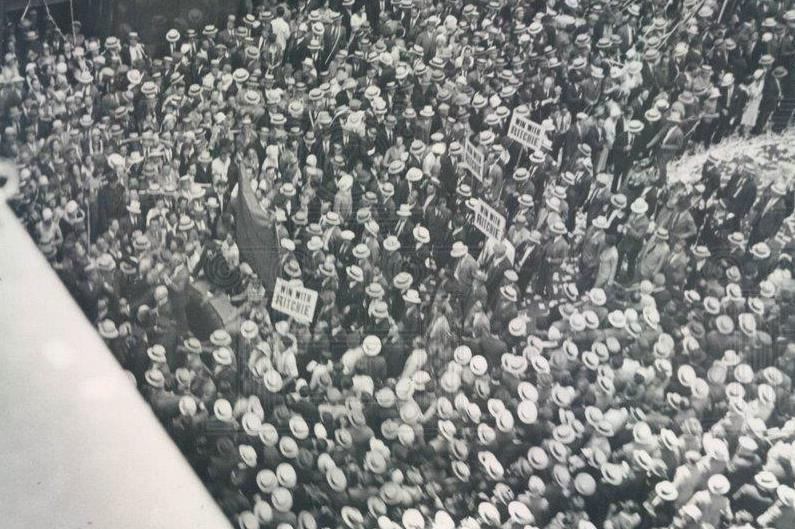 Crowd greets Governor Ritchie as he arrives at the Congress Hotel, where he set-up his convention headquarters